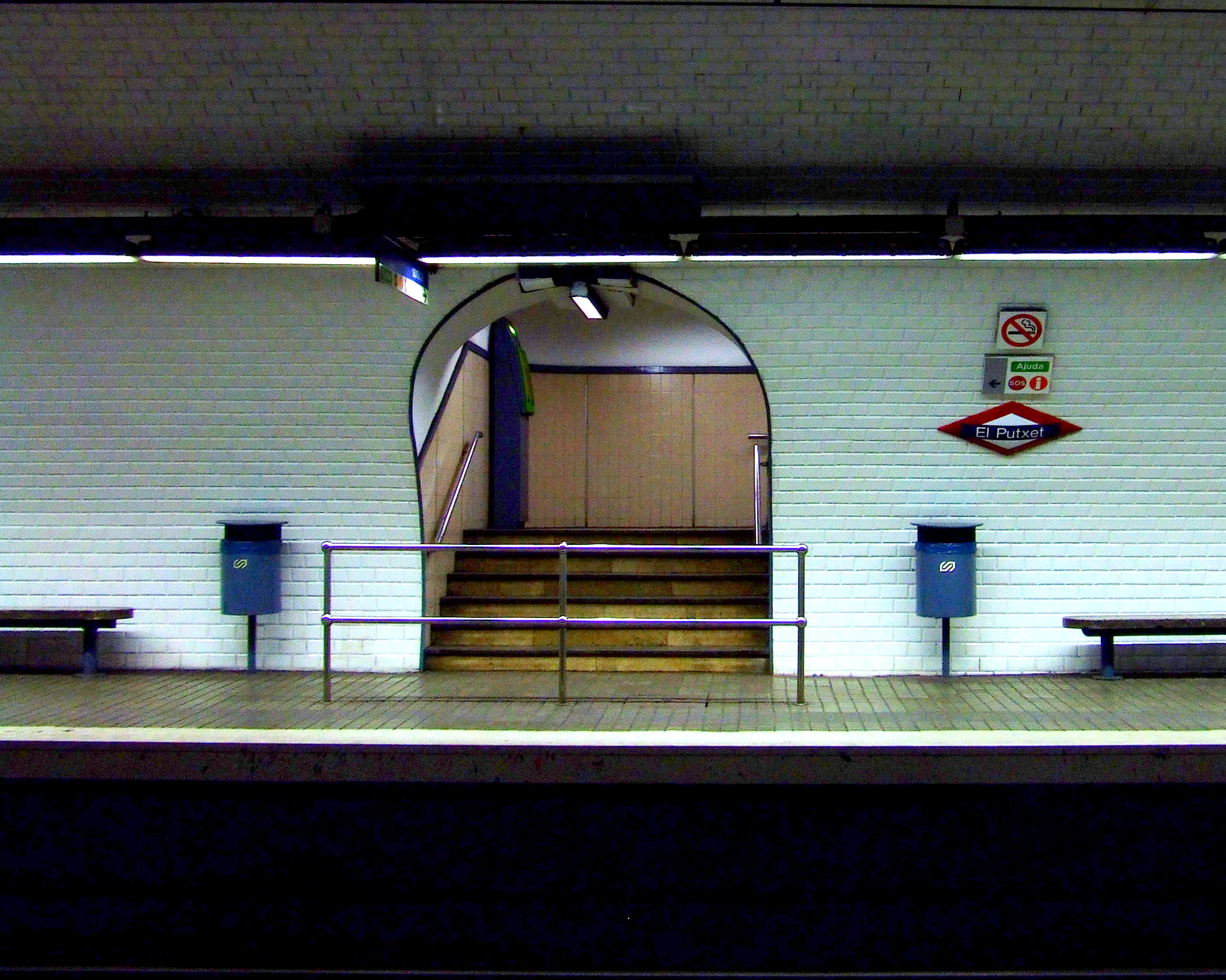 Putxet Station, Ferrocarrils de la Generalitat de Catalunya